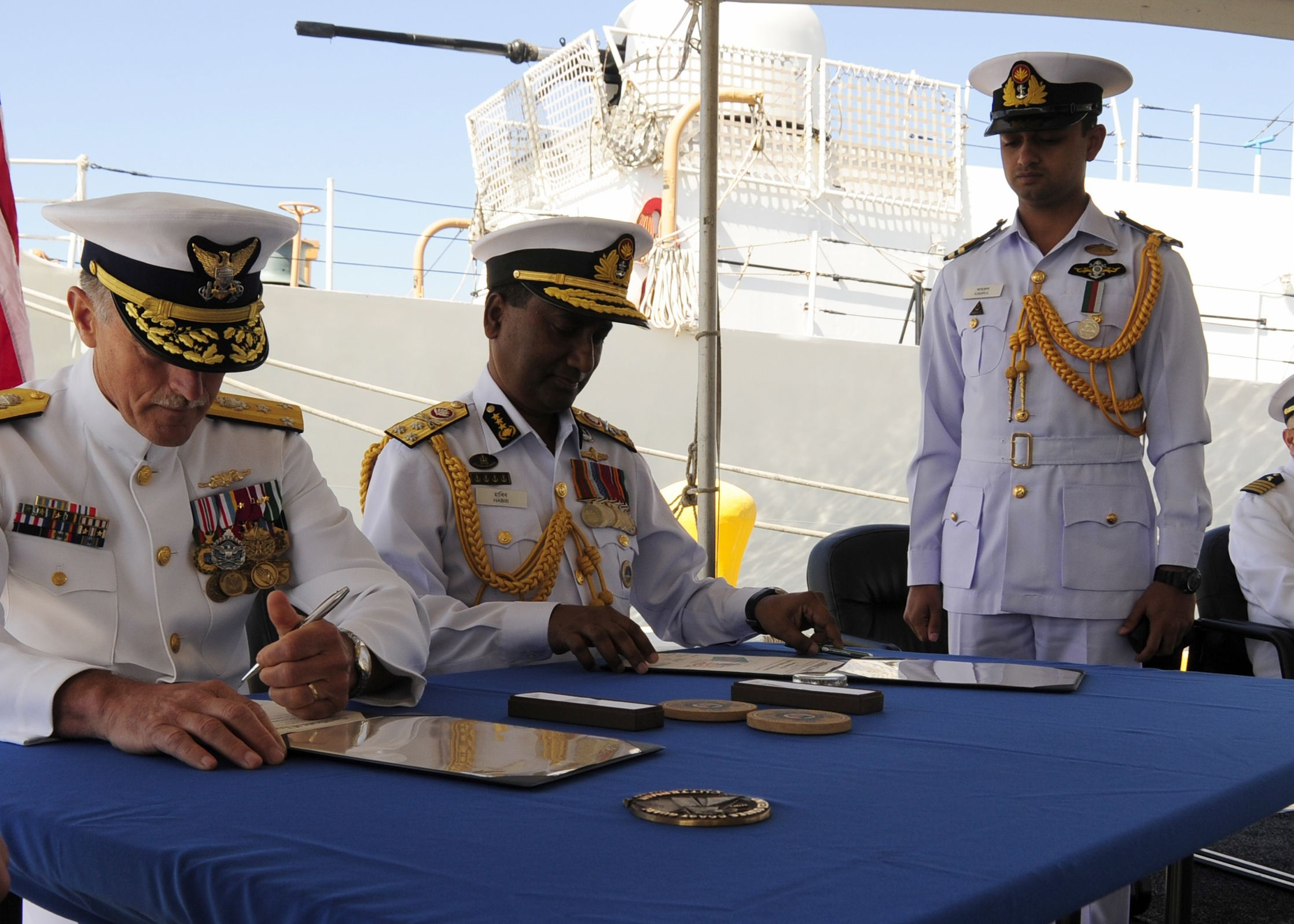 U.S. Coast Guard Vice Adm. Paul F. Zukunft, Pacific Area commander and Chief of Naval Staff for the Bangladesh navy, Vice Adm. Muhammad Farid Habib sign the official paperwork to transfer the Coast Guard Cutter Jarvis to the Bangladesh navy during a decommissioning and transfer ceremony on Coast Guard Island in Alameda, Calif., Thursday, May 23, 213. The Jarvis was commissioned in 1972 and became the BNS Somudro Joy. U.S. Coast Guard photo by Petty Officer 2nd Class Pamela J. Boehland